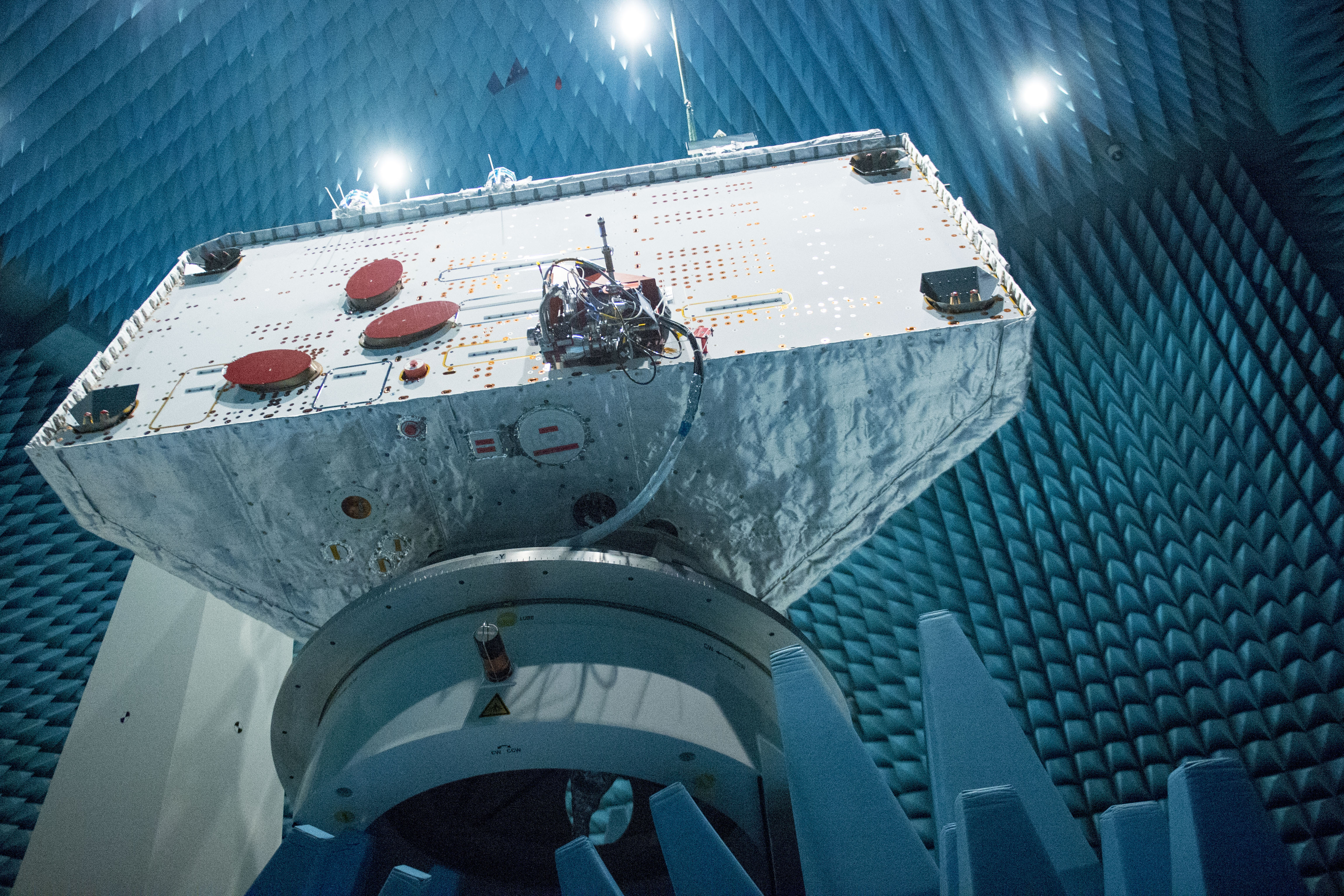 If ESA’s Mercury orbiter of the BepiColombo mission seems to stand at an unusual angle above its test chamber floor, that’s because it does – intentionally so. The orbiter underwent ‘electromagnetic compatibility, radiated emission and susceptibility’ testing last month inside the Maxwell chamber ofESA’s ESTEC Test Centrein Noordwijk, the Netherlands. Maxwell’s shielded metal walls and doors form a ‘Faraday cage’ to block unwanted external electromagnetic radiation, while its internal walls are cover with ‘anechoic’ radio-absorbing foam pyramids to mimic boundless space. “We are performing two types of compatibility testing,” explained Marco Gaido, assembly, integration and test manager for BepiColombo. “First, we are checking the craft is electrically compatible with the electrical field generated by the Ariane 5 launcher that will deliver it into orbit, with no possibility of interference with BepiColombo’s receivers. “Secondly, we are testing if there is any risk of incompatibility between the different subsystems of the spacecraft itself when it orbits Mercury. In particular, we want to check that its trio of antennas on top can communicate properly with Earth. “Accordingly, it was deliberately oriented to simulate a worst-case scenario for test purposes.” The orbiter was positioned to allow deployment of its medium-gain antenna in terrestrial gravity. The high-gain antenna reflector meanwhile was deployed in a worst-case position, supported by a dedicated fixture. The spacecraft was tilted by means of a large platform while the high-gain antenna was supported by a tower made of wood, transparent to radio waves. All test cables used were shielded to reduce potential interference. ESA’s Mercury Planetary Orbiter will be launched to Mercury together with Japan’s Mercury Magnetospheric Orbiter aboard an ESA-built carrier spacecraft, the Mercury Transfer Module. This entire three-moduleBepiColombostack will undergo similar testing at ESTEC.